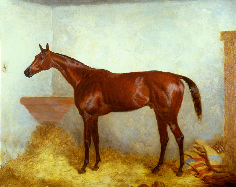 Sterling (18672). Oil on canvas by Harry Hall (1816-1882). Artist dead for 125 years.